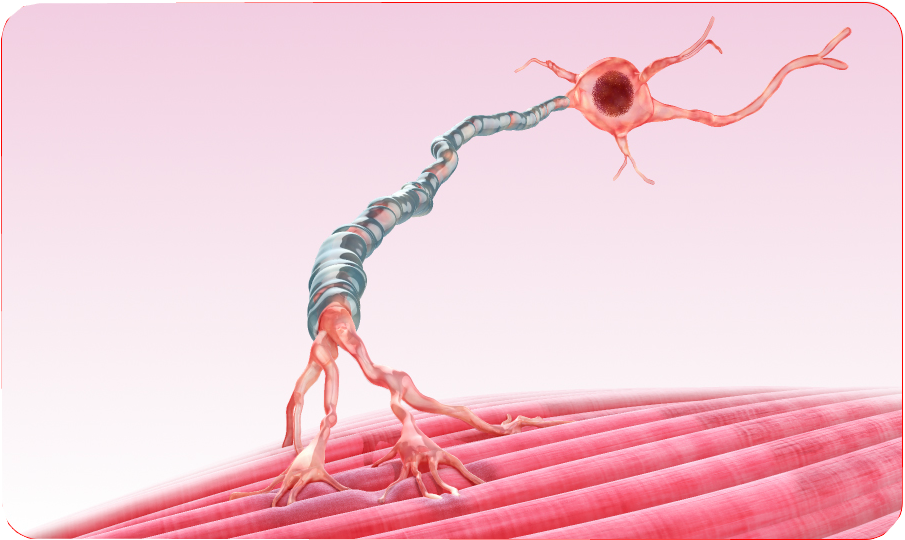 3D Medical Animation Still of a SpinalNeuron